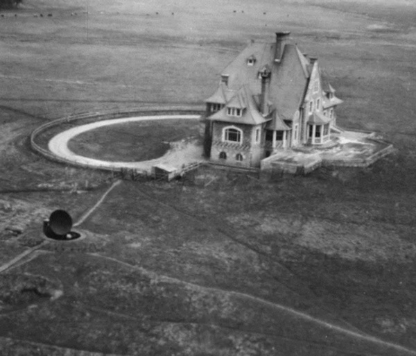 Low level oblique of the "Würzburg" radar near Bruneval, France, taken by Sqn Ldr A.E. Hill on 5 December 1941. Photos like this enabled a raiding force to locate, and make off with, the radar's vital components in February 1942 for analysis in Britain.